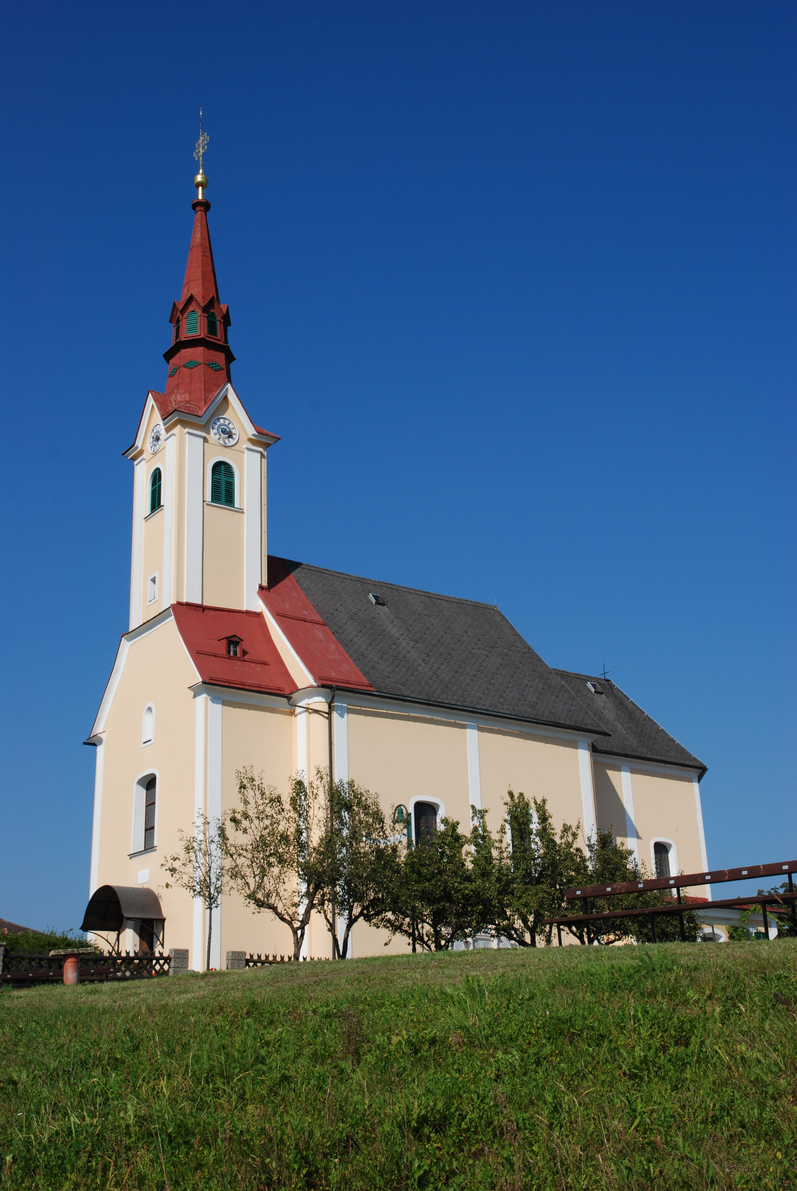 Kirche St. Nikolai ob Draßling